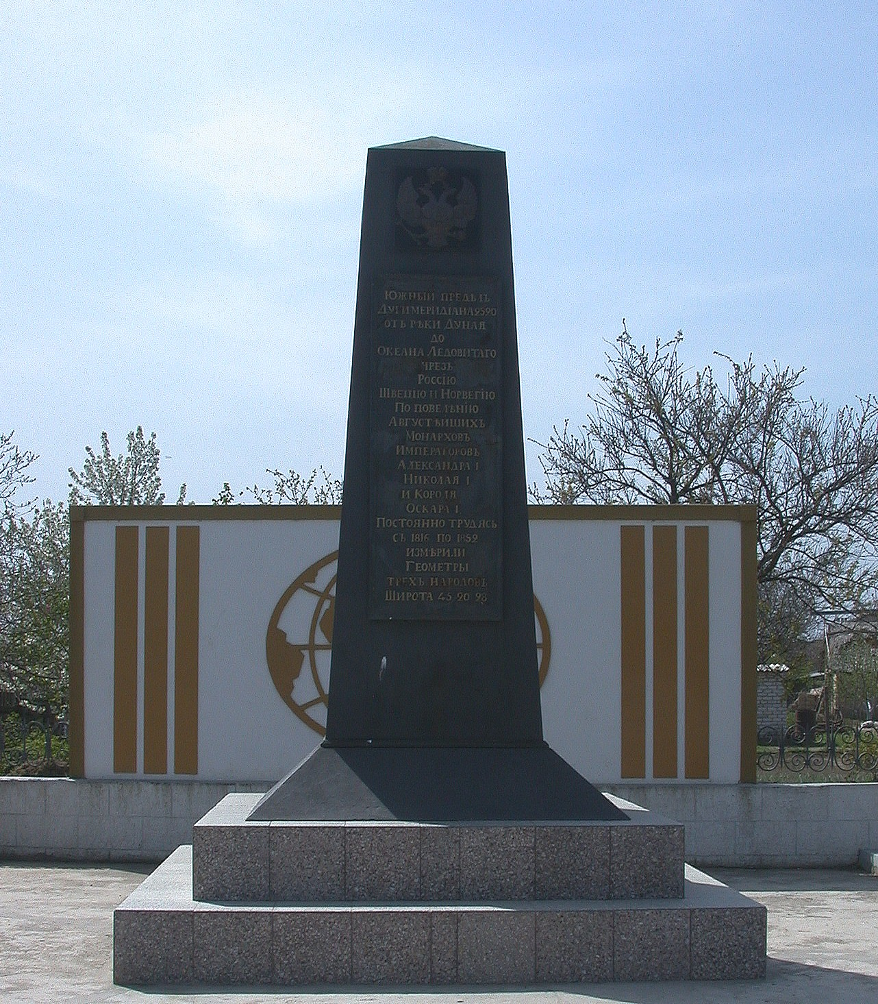 The southern point of the Struve Geodetic Arc (Staro-Nekrasovka, Odessa region)